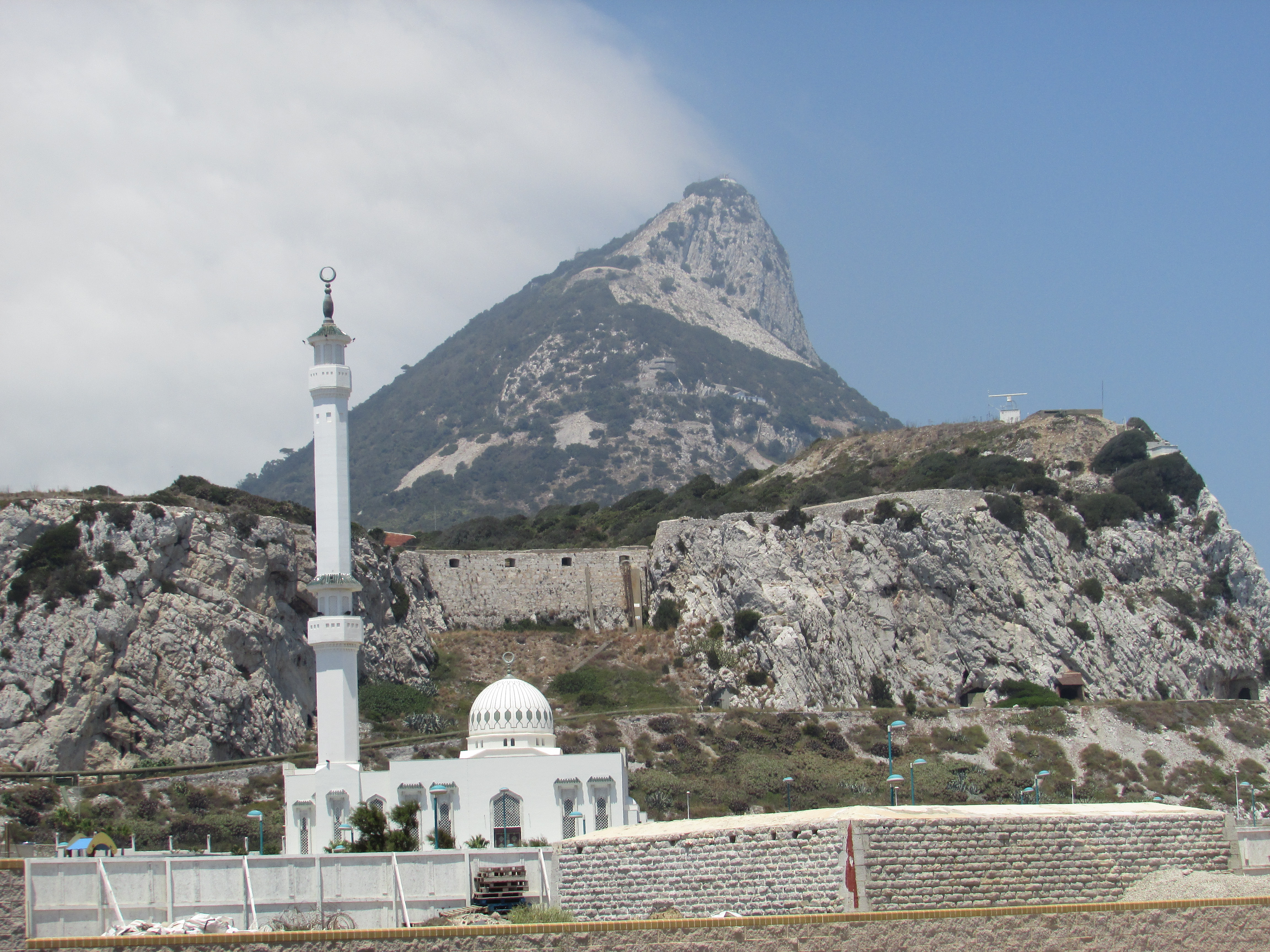 The Ibrahim-al-Ibrahim Mosque, also known as the King Fahd bin Abdulaziz al-Saud Mosque or the Mosque of the Custodian of the Two Holy Mosques, is a mosque located at Europa Point in the British overseas territory of Gibraltar, a peninsula connected to southern Spain. The mosque faces south towards the Strait of Gibraltar and Morocco several miles away